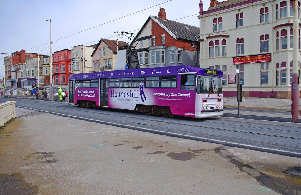 Blackpool Centenary class tram no. 648 on Promenade, North Shore, Blackpool, Data from Geograph: Description: The tram was photographed passing the Cherry Blossom Hotel, near Warley Road. The tram was built in 1985 and was one of a batch of eight. They were built by East Lancashire Coachbuilders, using many bus components, to keep costs... more ICBM: 53.830907346169, -3.0557899686663 Location: (about 1 km from) near to North Shore, Blackpool, Great Britain.